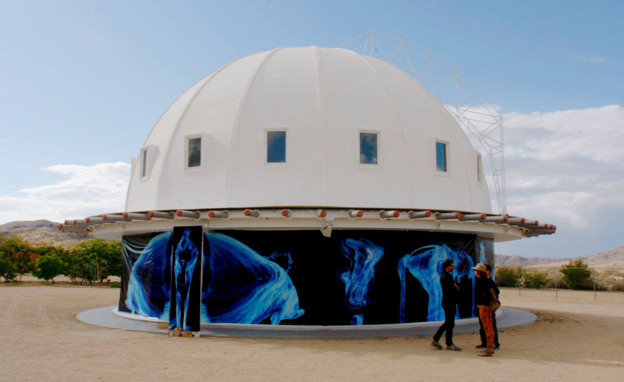 Faces of Water being shows at an exhibit in Joshua Tree.